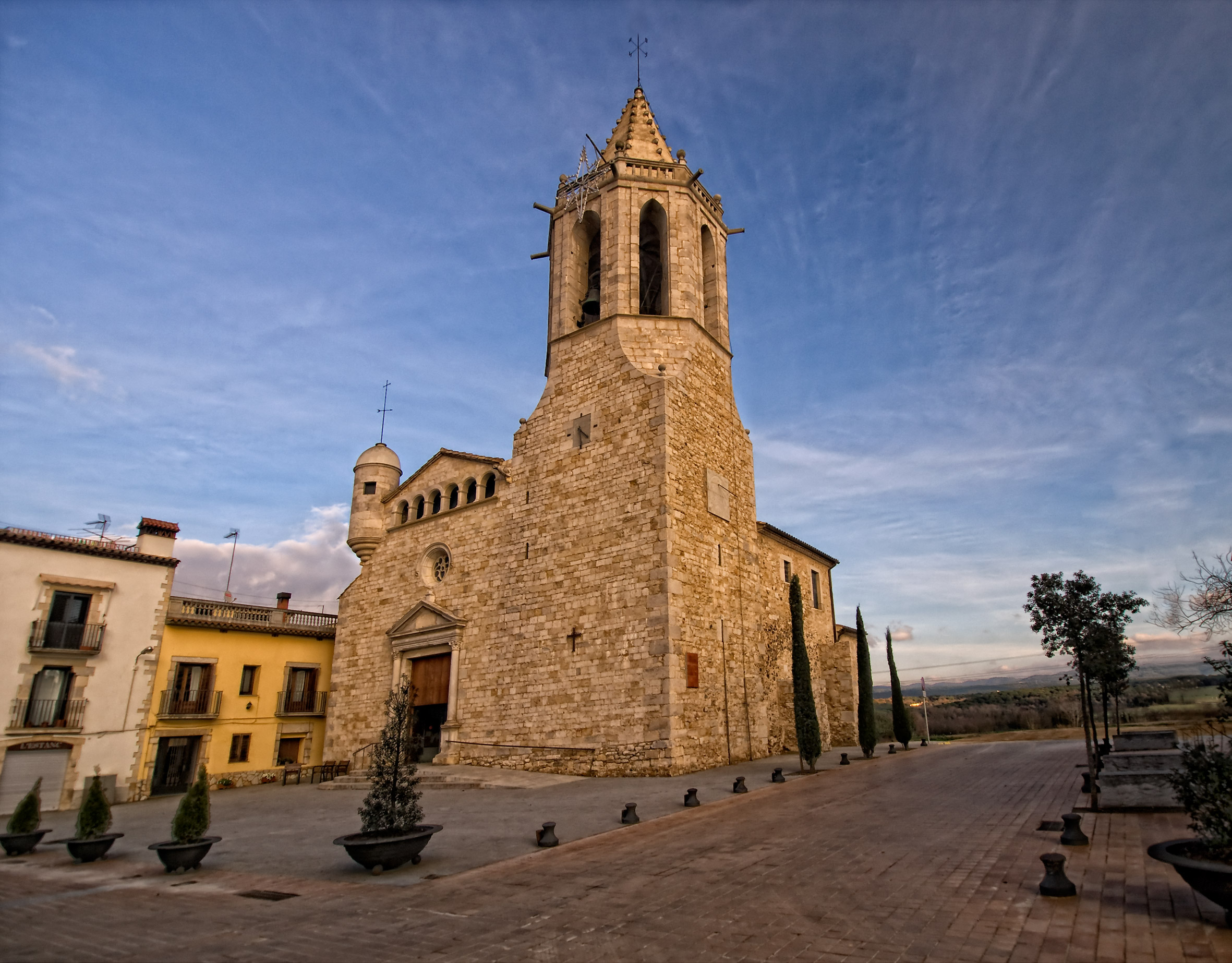 Sant Cugat church (Fornells de la Selva, Catalonia, Spain)